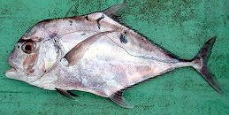 Alectis ciliarus off Solomon islands